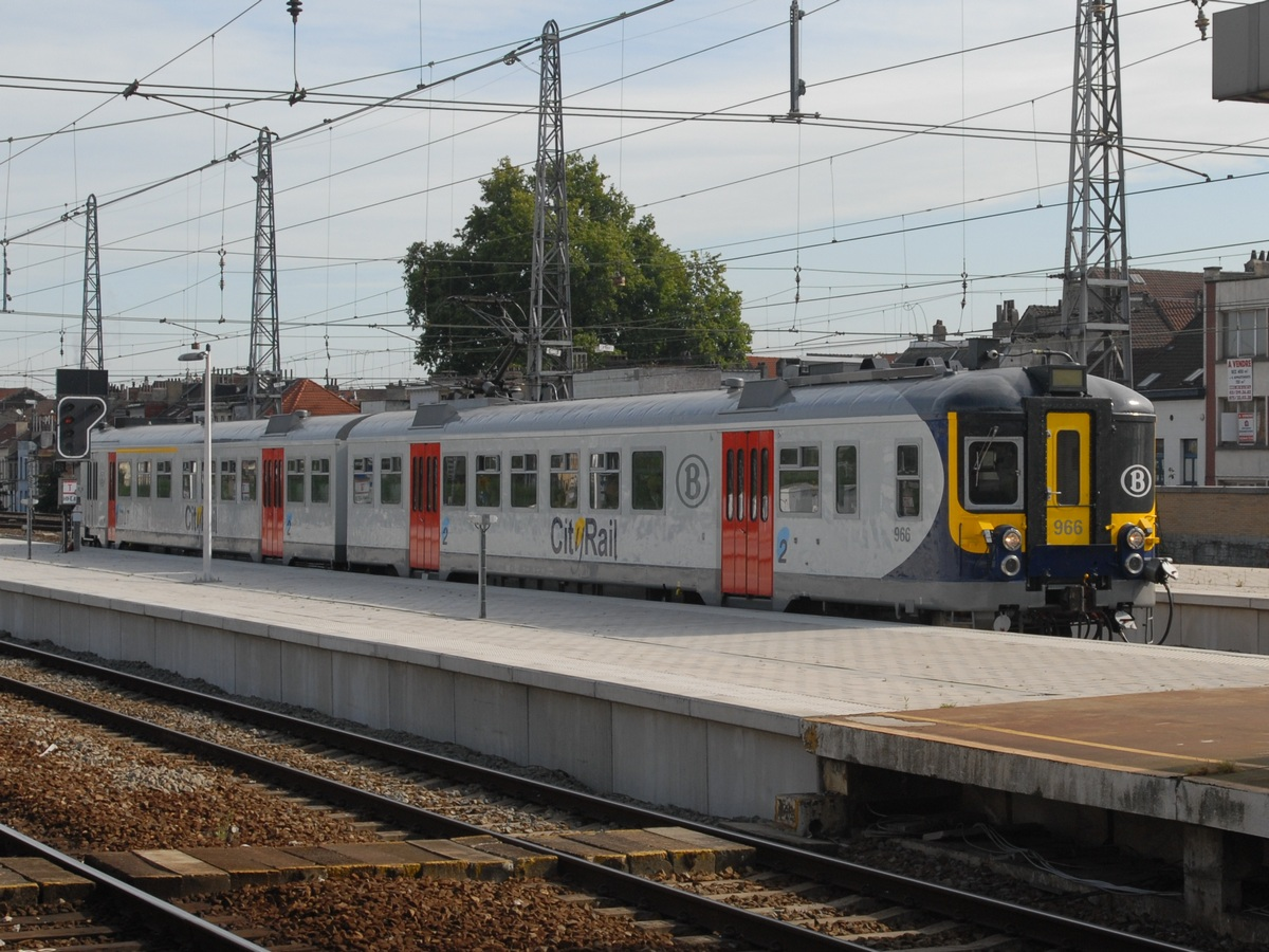 CityRail in station Brussel-Noord